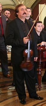 Bandmaster Nicolae Botgros at Ion Dolanescu's funerals.